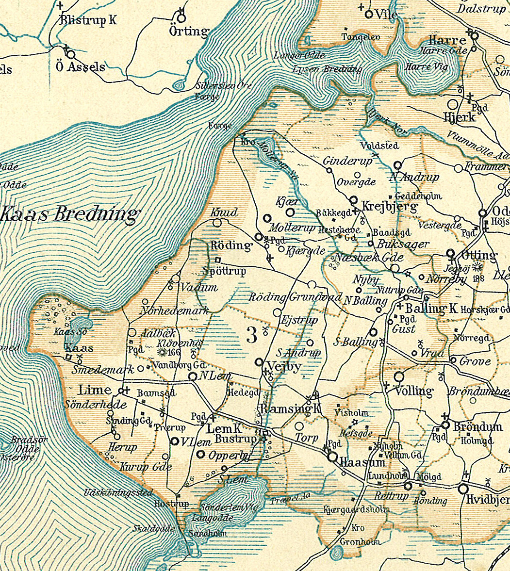 Map of Rødding Herred in the northwestern part of Viborg County in Denmark